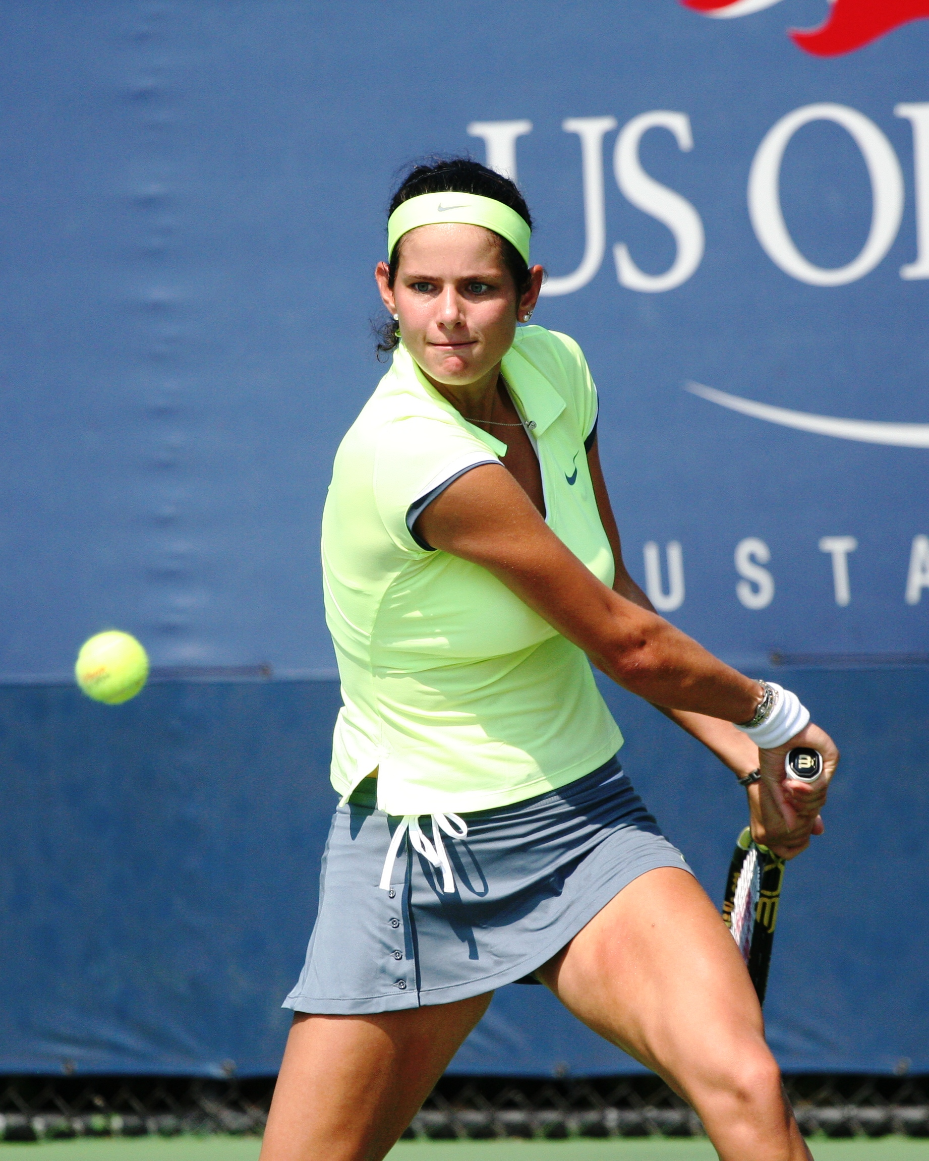 U.S. Open Thursday, Sept. 2, 2010